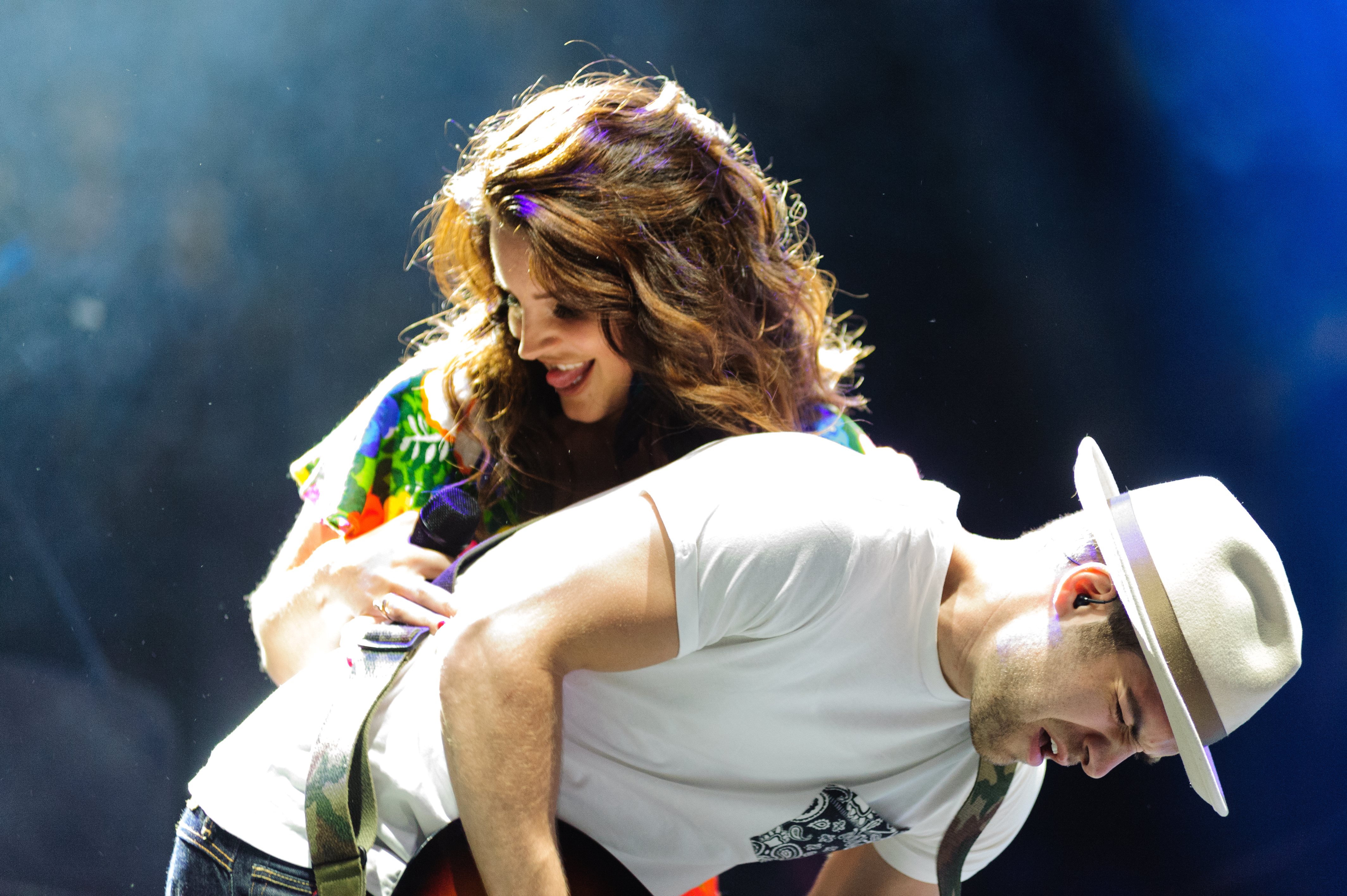 Lana Del Rey performing at Coachella in 2014